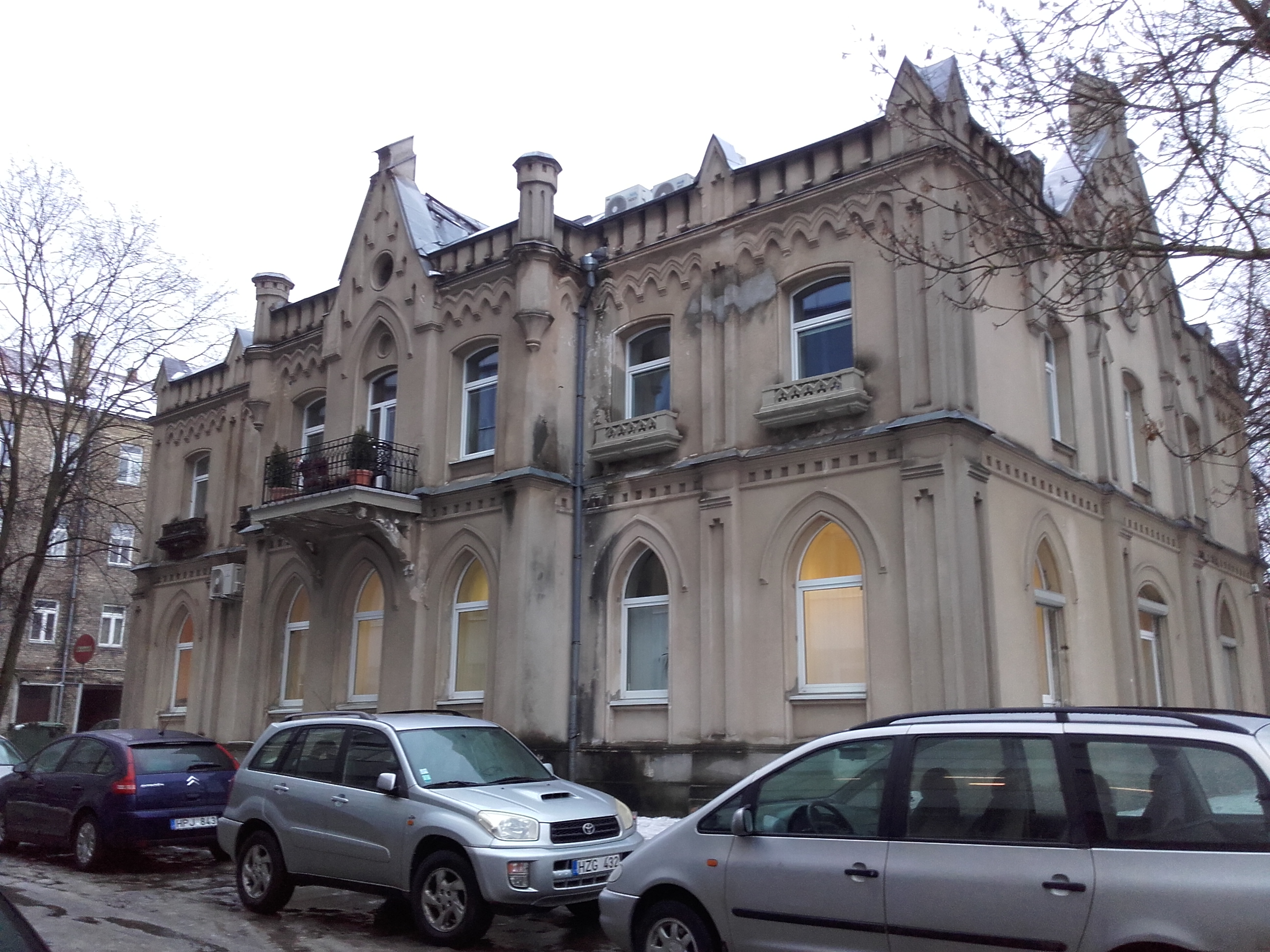 A. Vivulskio str. 5